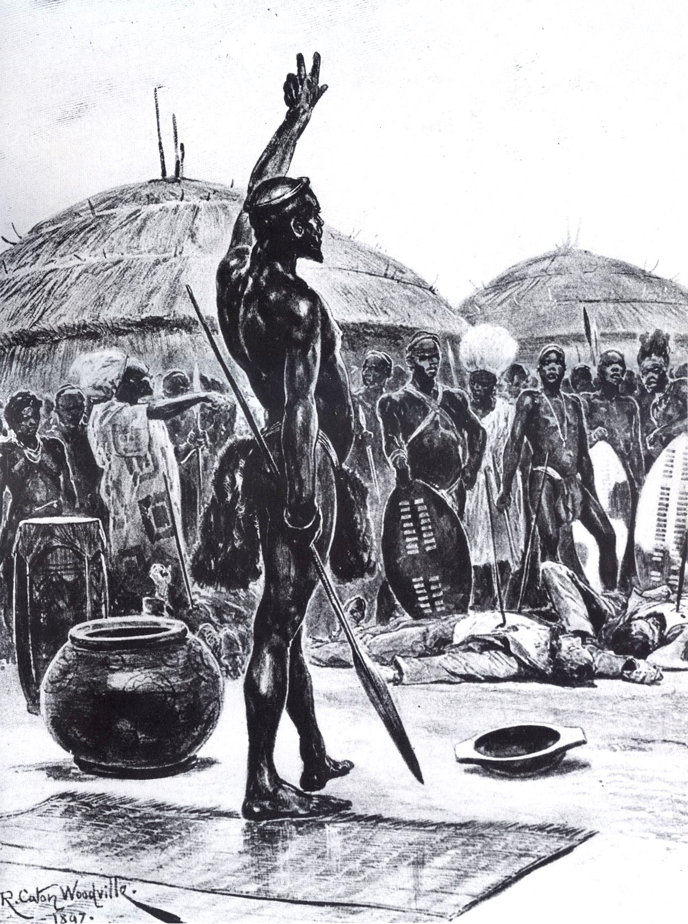 Dingane got up and yelled "Bulalani abathakathi" ("kill the magicians") and the warrior immediately killed the Boer representatives. In reality they were killed outside the royal kraal on the execution rock called Matiwane.